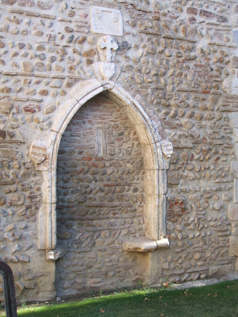 Claira : Saint-Vincent church (XIVth century, partially rebuild and extended afterwards